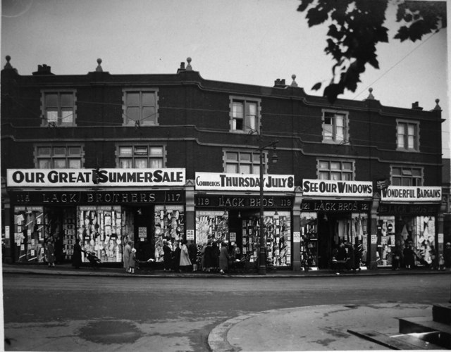 Thornton Heath High Street Lack Brothers Drapers Department Store 1926